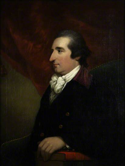 Portrait of Francis Russell (1740–1795), English official.